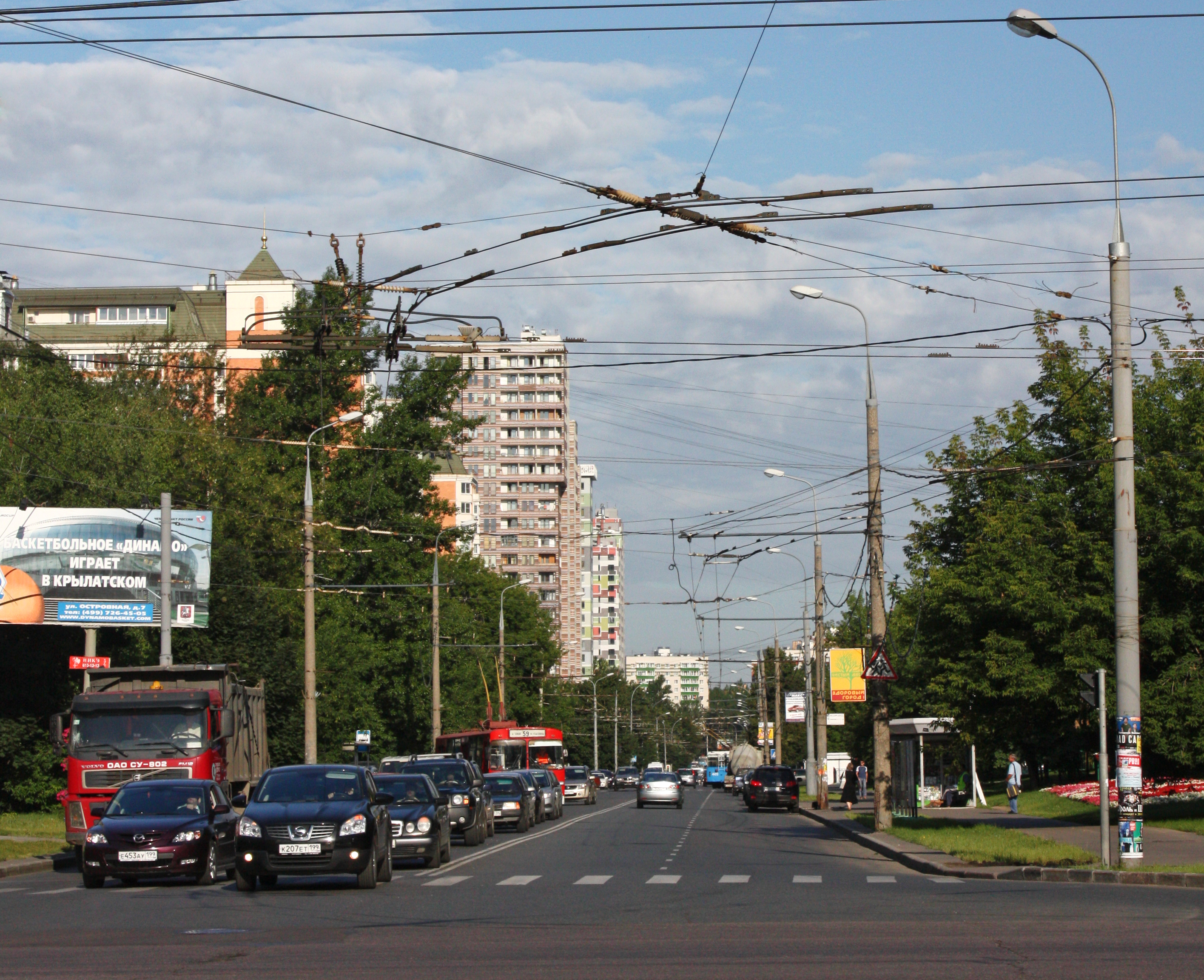 Moscow. Street of Marshal Tukhachevsky. A view from outside street of the Narodnogo Opolcheniya street